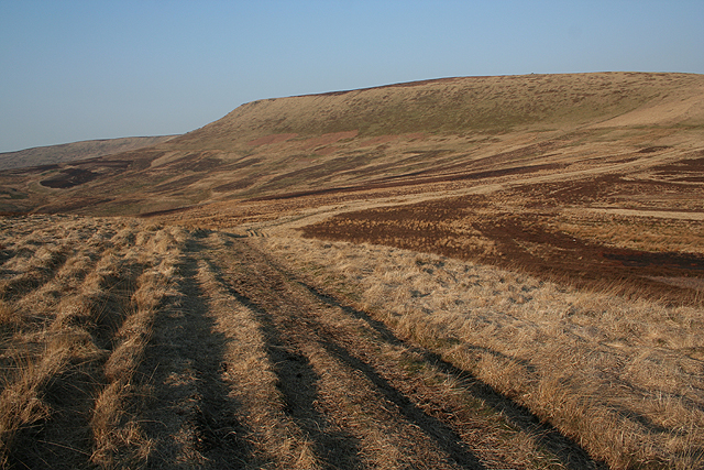 Howden Edge from Nether Hey. Looking northeastwards across much of the square from the bottom southwest corner.